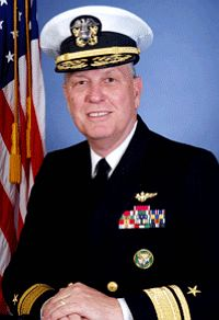 U.S. Navy Rear Admiral John Adrian Jackson.